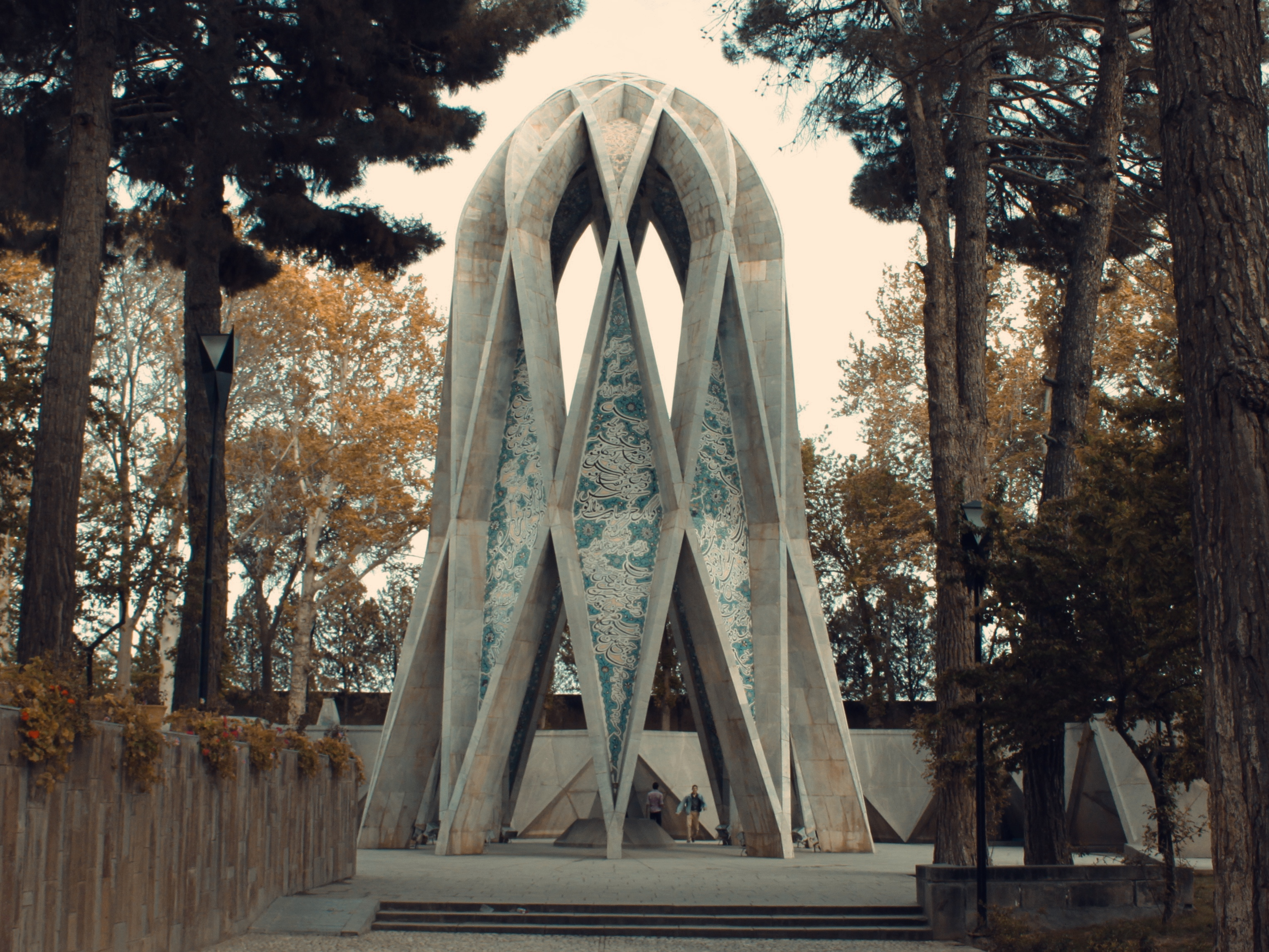 Nishapur - Omar Khayyam Mausoleum